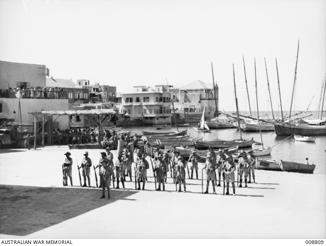 "AUSTRALIANS OF THE 2/3 BATTALION AIF FORM UP ON THE QUAYSIDE AT TYRE TO ACT AS GUARD OF HONOUR TO GENERAL WILSON ON THE OCCASION OF HIS FORMALLY TAKING OVER THE TOWN FROM THE FRENCH."